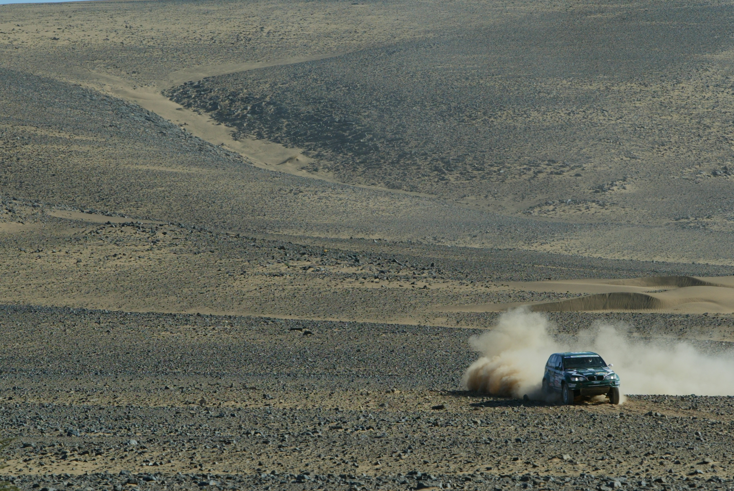 Rally Dakar Argentina-Chile-Argentina. At the Patagonia.